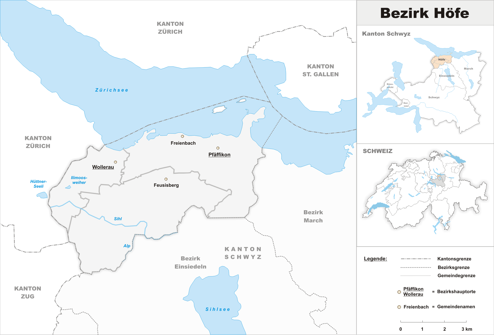 Municipalities in the district of Höfe